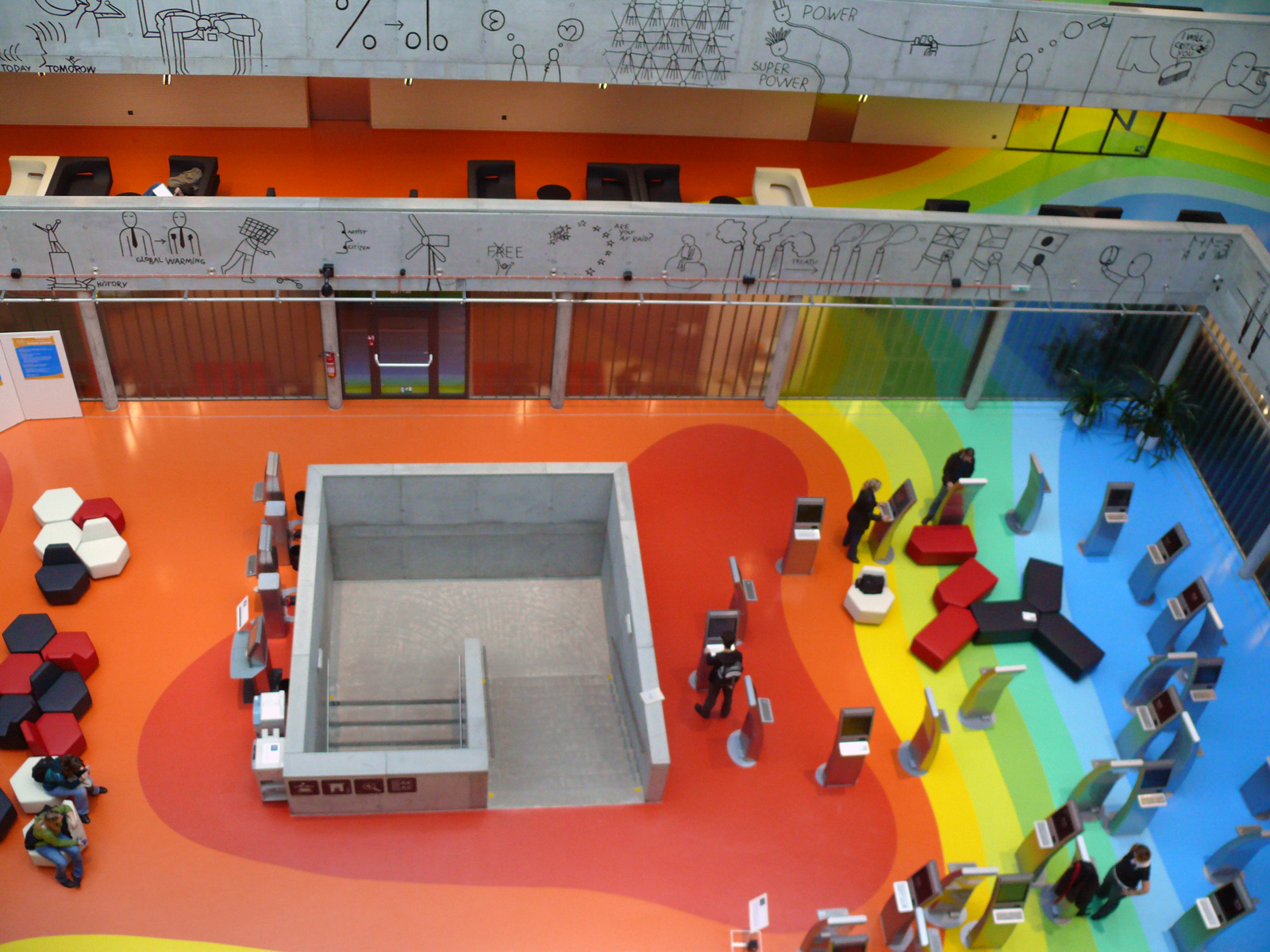 NTK (Prague, CZ)